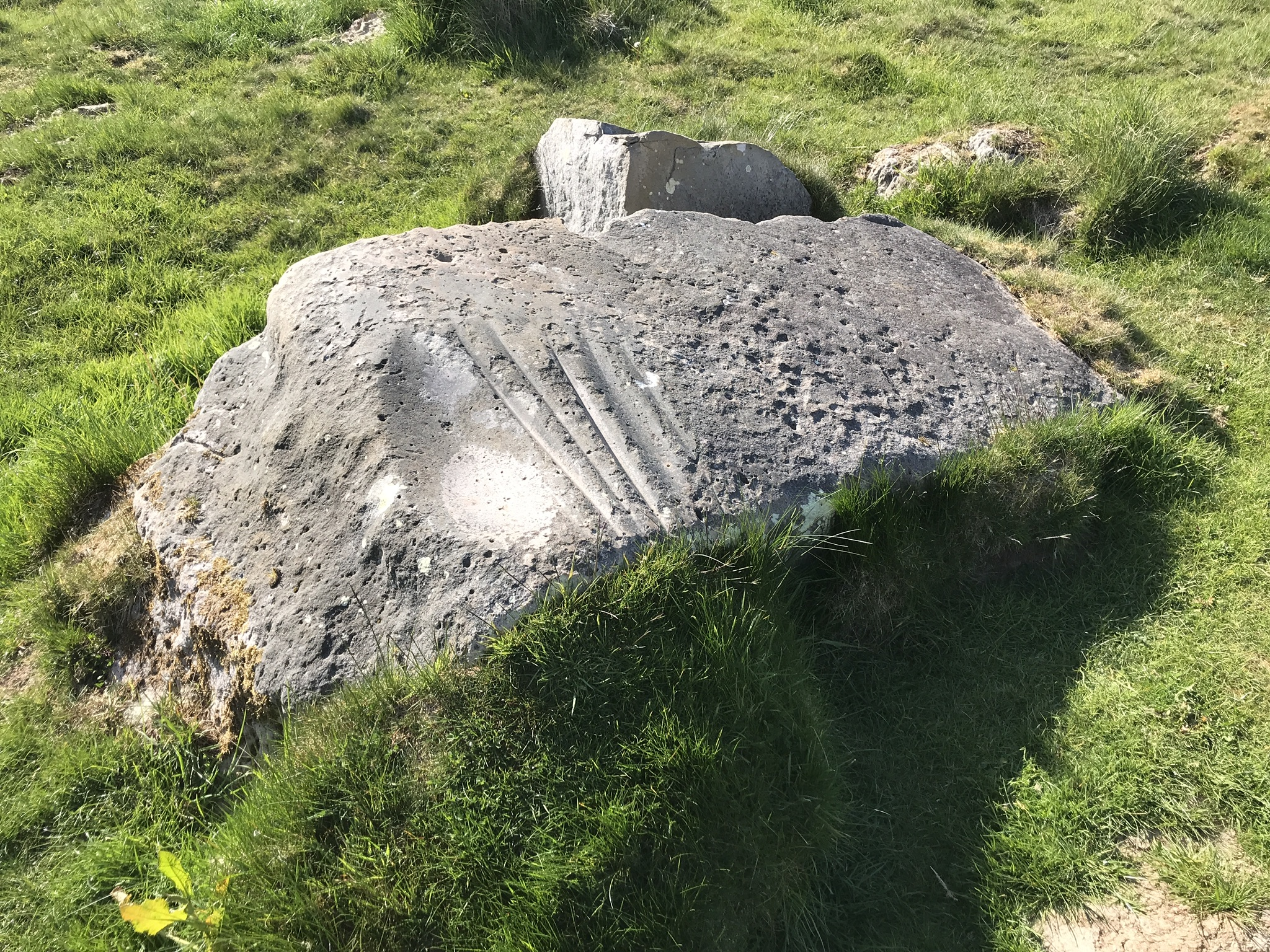 This stone is know as the polisher and is reputed to have been used by Neolithic and Bronze Age people’s as a sharping stone.